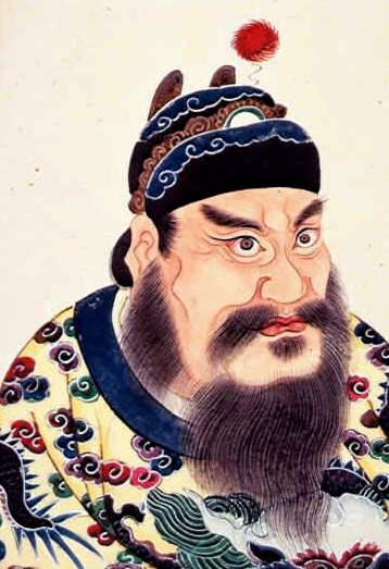 A portrait painting of Qin Shi Huangdi, first emperor of the Qin Dynasty, from an 18th-century album of Chinese emperor's portraits.